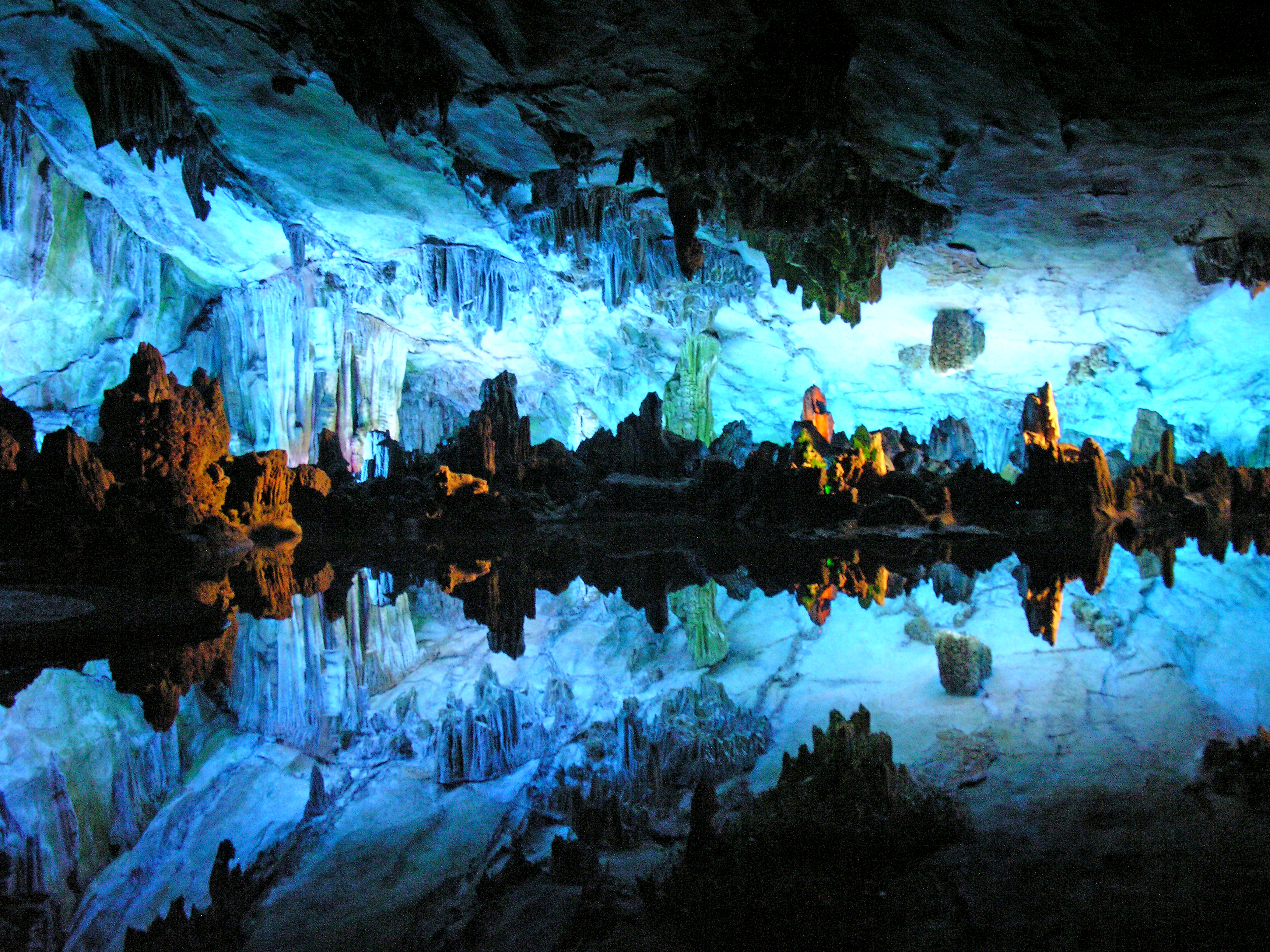 The picture is at a lake in the cave, the water is so clear and still that it is hard to see the division between the water and the walls.